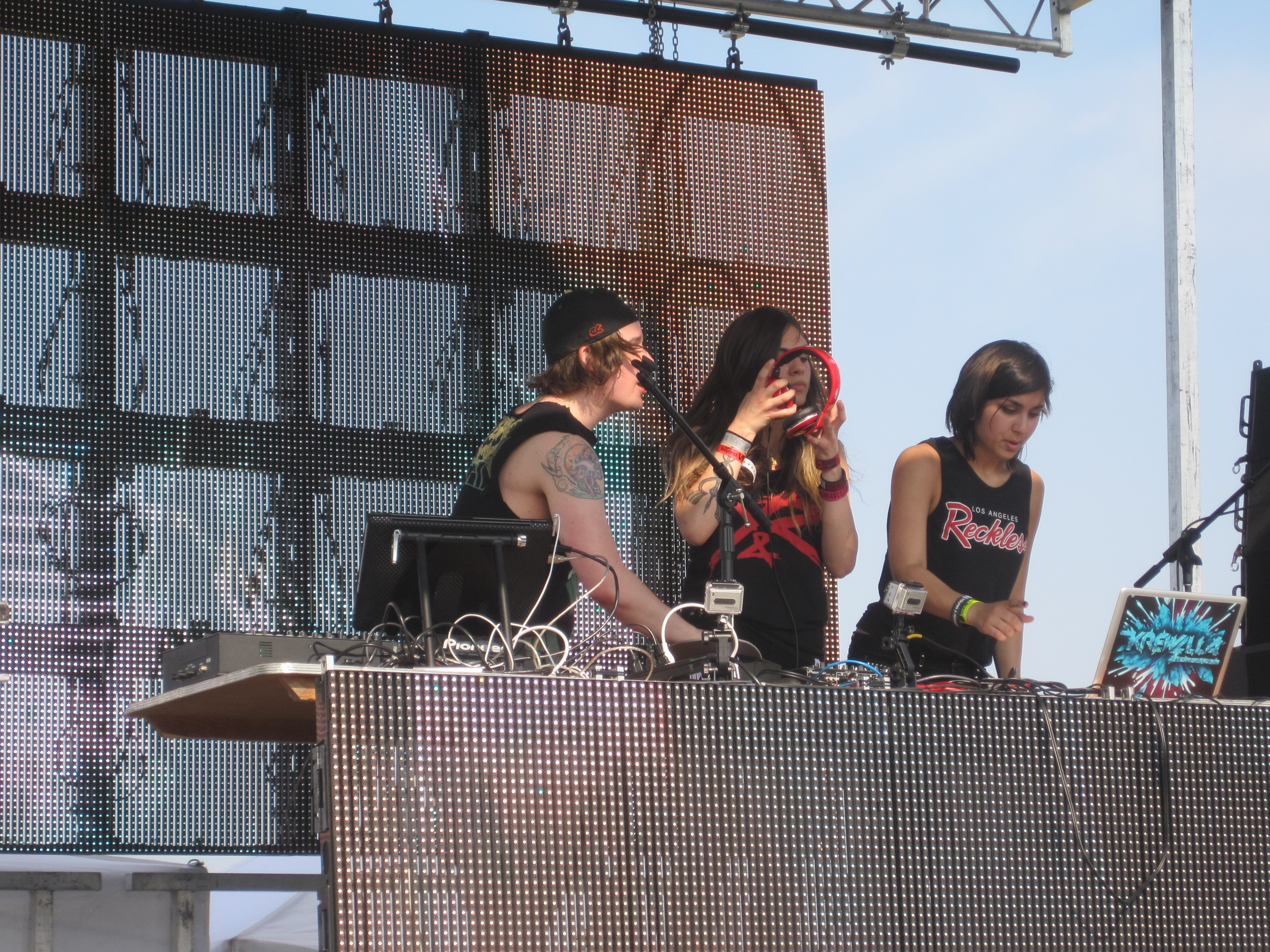 Krewella (from left to right: Kris "Rain Man" Trindl, Jahan Yousaf, and Yasmine Yousaf) performing at the Indianapolis Motor Speedway in Speedway, Indiana on Sunday, May 27th, 2012.